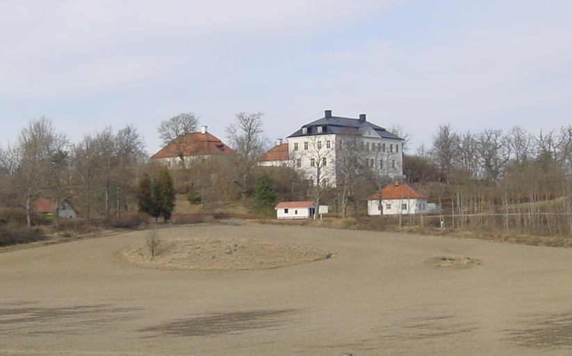 Mem castle